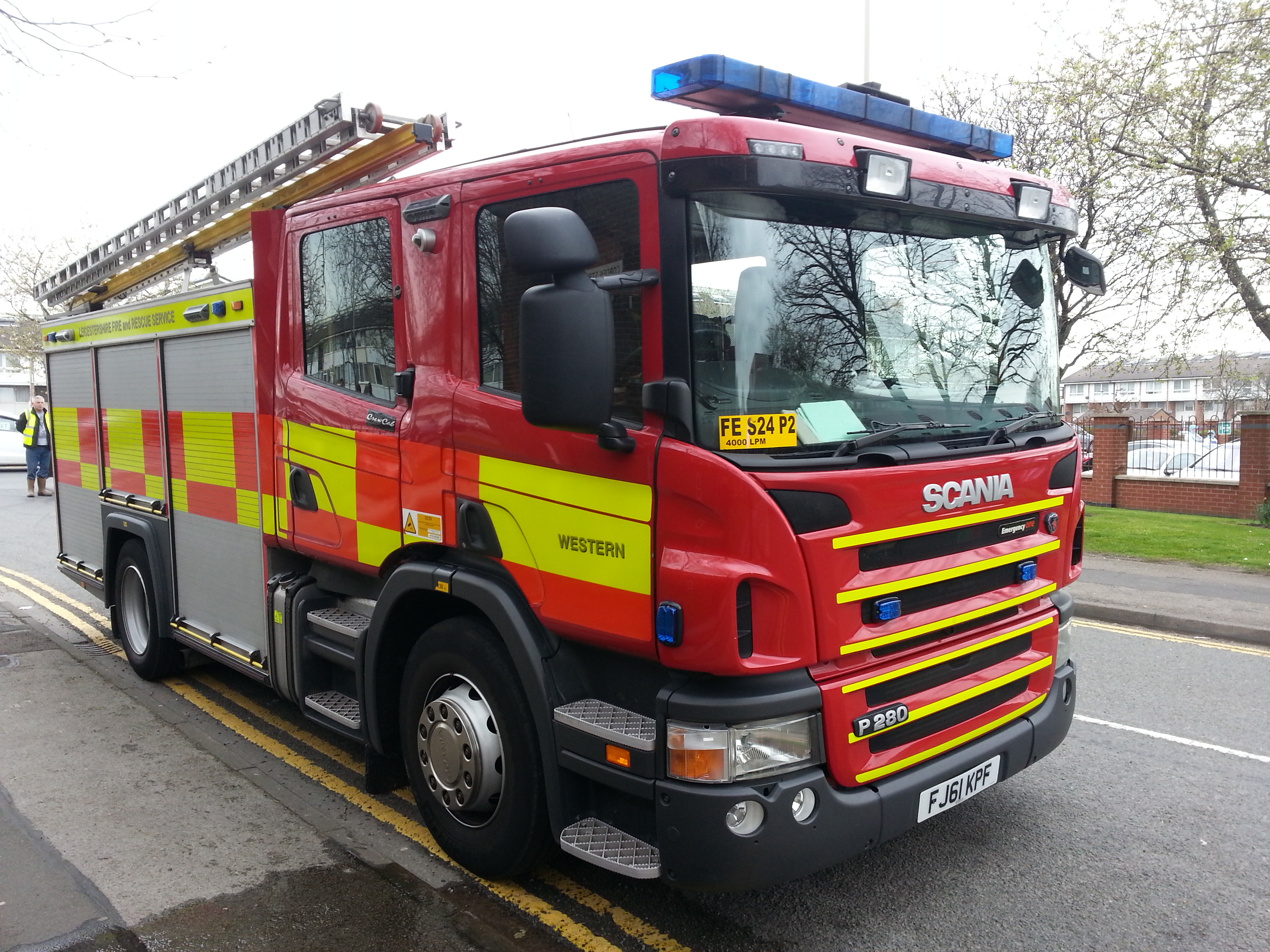 Fire truck